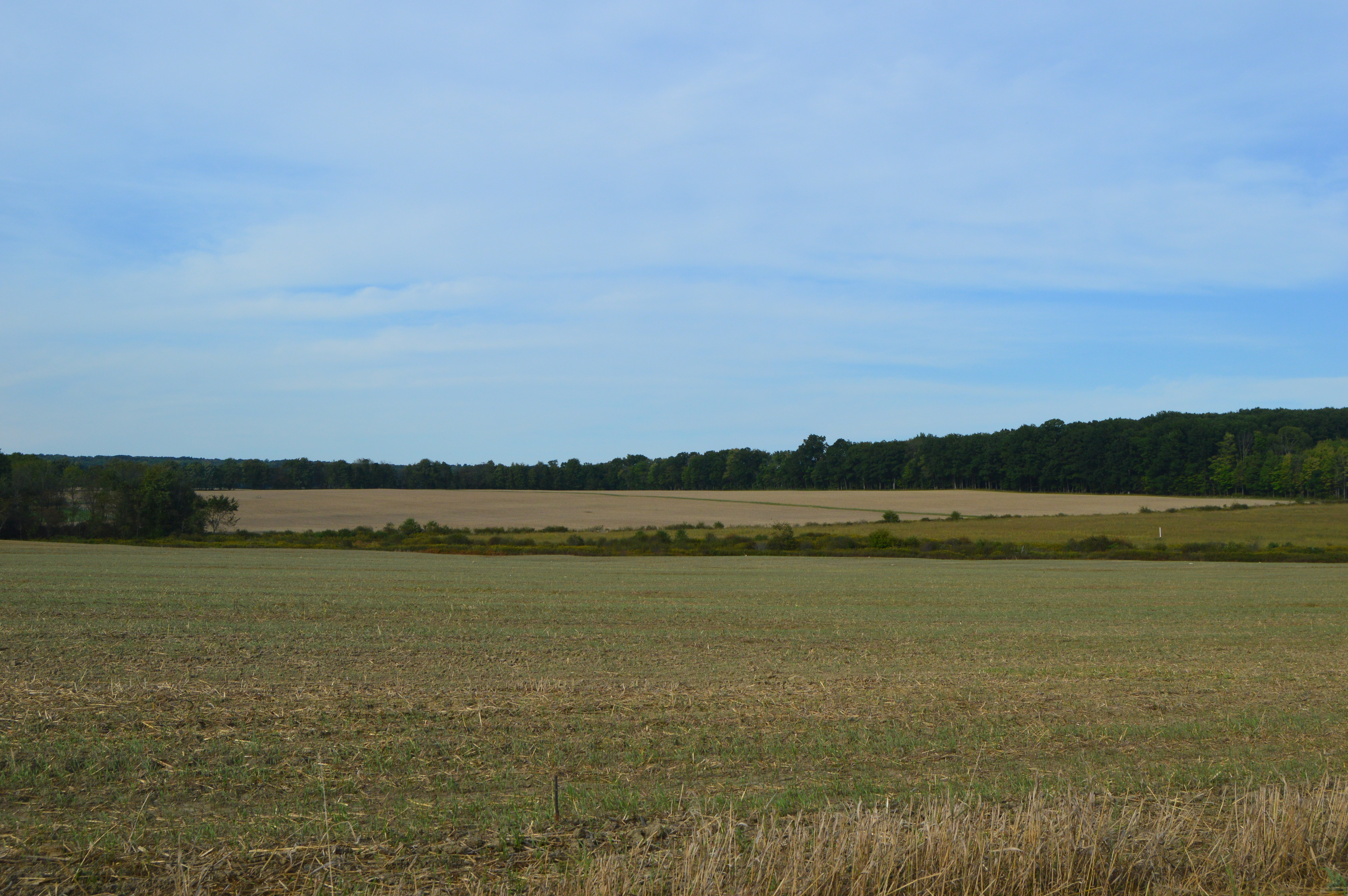 Fields on the northern side of Stevenson Road, just north of the Greenville Municipal Airport, in southeastern Greene Township, Mercer County, Pennsylvania, United States.